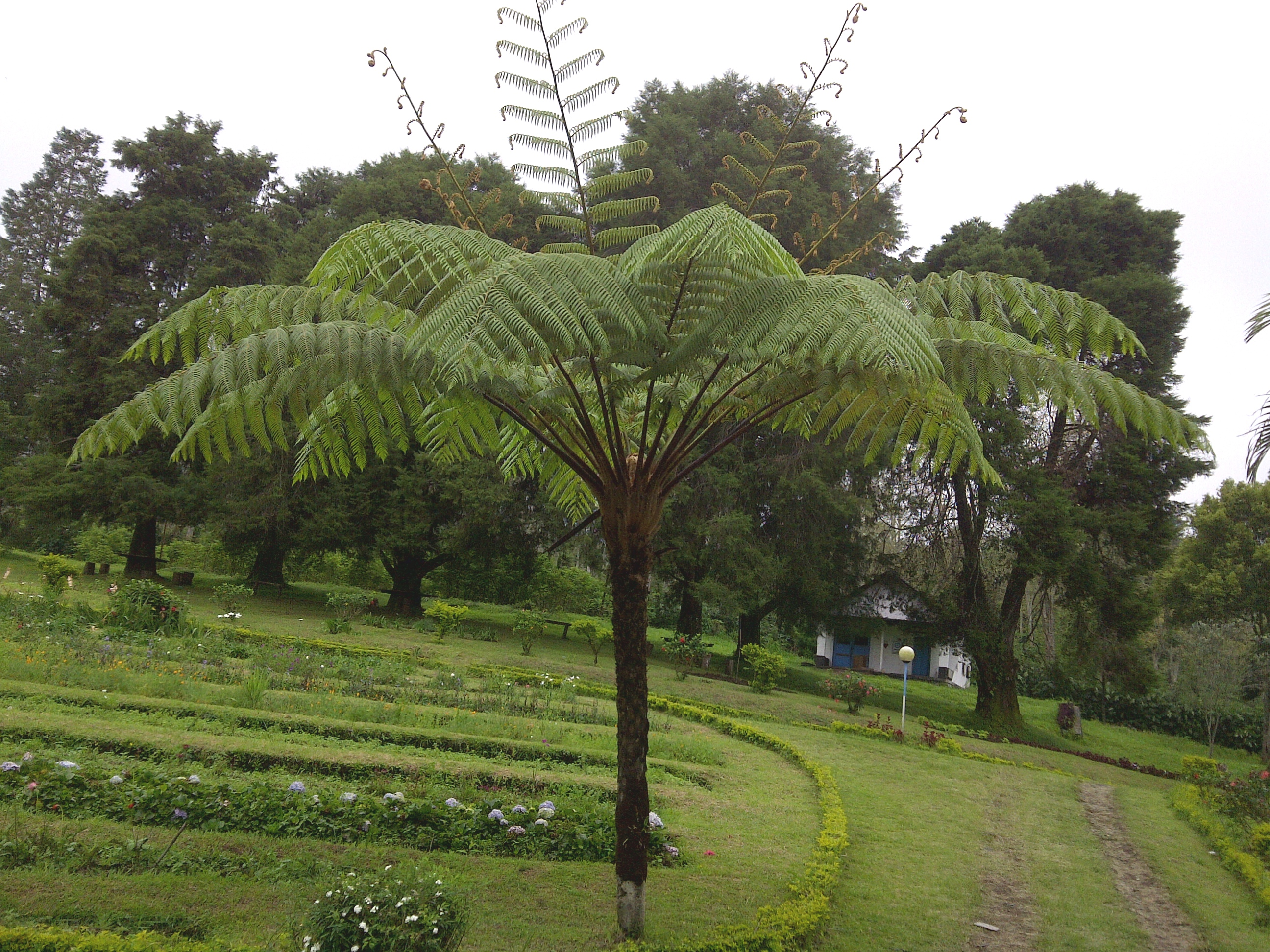 Unidentified Cyatheaceae at a garden of Kawah Ijen, Indonesia